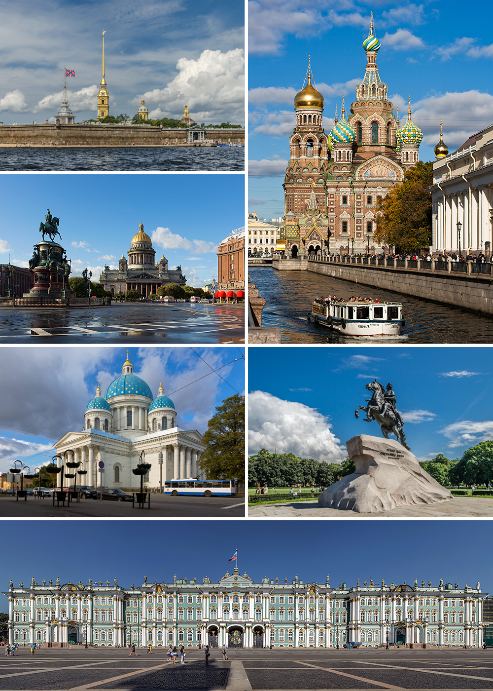 Saint Petersburg Collage